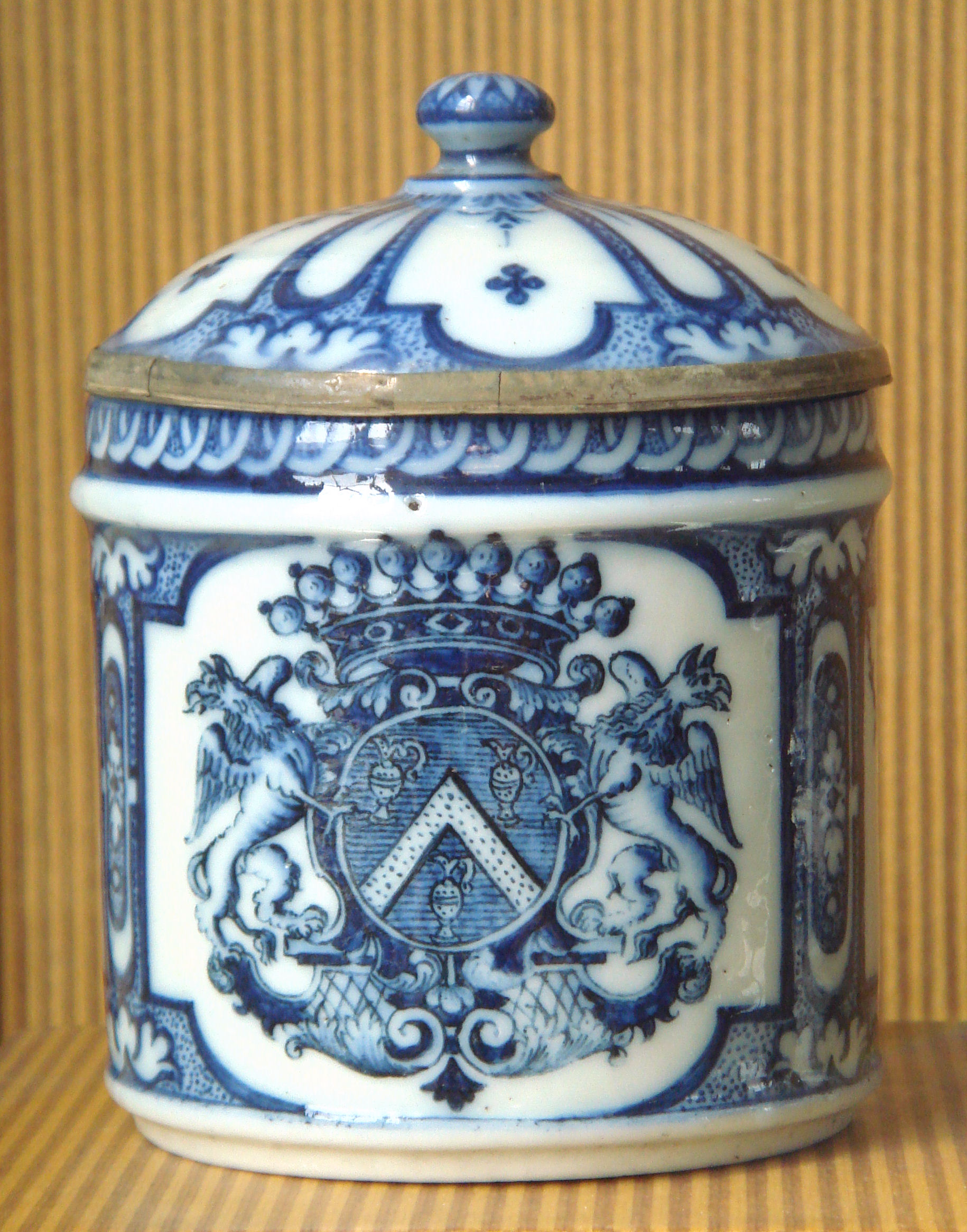 Rouen_porcelain_mustard_cup_end_of_the_17th_century_arms_of_Asselin_de_Villequiers.